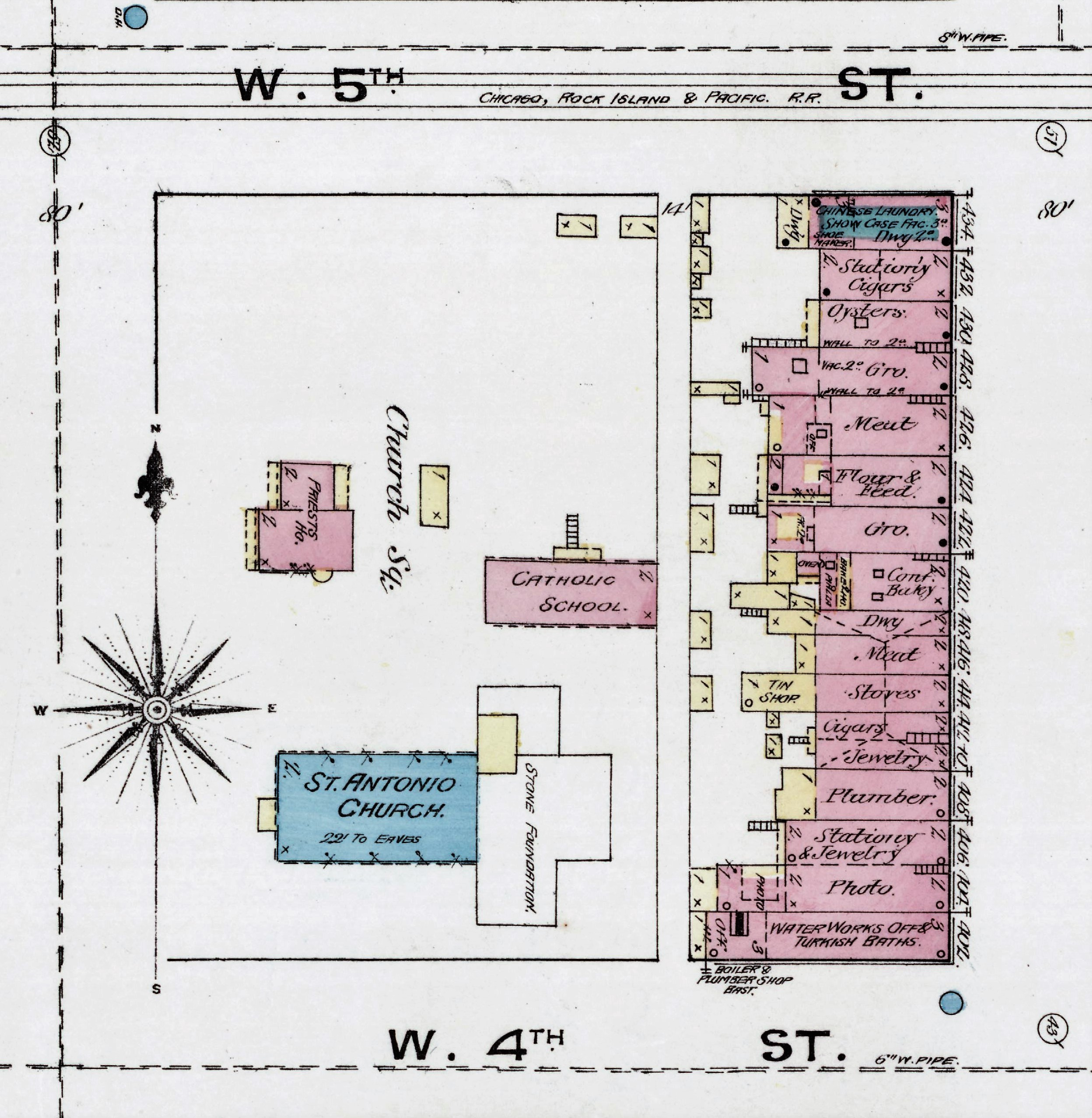 An 1886 Sanborn Fire Insurance Map cropped to show Church Square in Davenport, Iowa, United States. St. Anthony's Church (blue) is lower left (note the rear addition is not complete). The rectory (above left) and the school (original church) behind it are in pink. On the east side of the property along Brady Street (right) are commercial buildings.